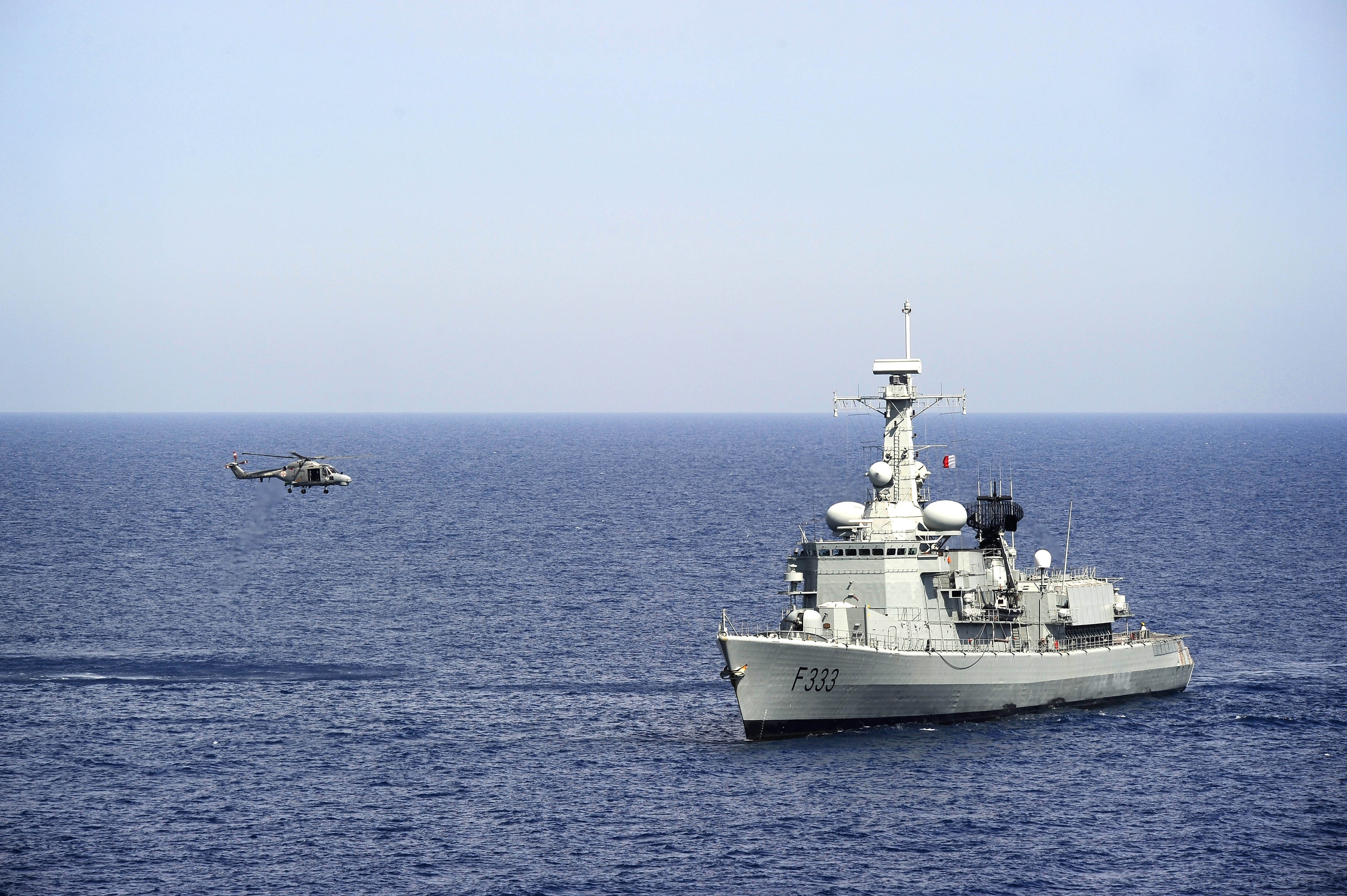 MEDITERRANEAN SEA (May 27, 2010) A Portuguese Navy MK-95 Lynx helicopter prepares to land aboard the Portuguese Navy frigate NRP Bartolomeu Dias (F-333) during the at sea portion of exercise Phoenix Express 2010 (PE 10). PE-10 is a two-week exercise designed to strengthen maritime partnership and enhance stability in the region through increased interoperability and cooperation among partners from Africa, Europe and United States. (U.S. Navy photo by Mass Communication Specialist 2nd Class Jimmy C. Pan/Released)